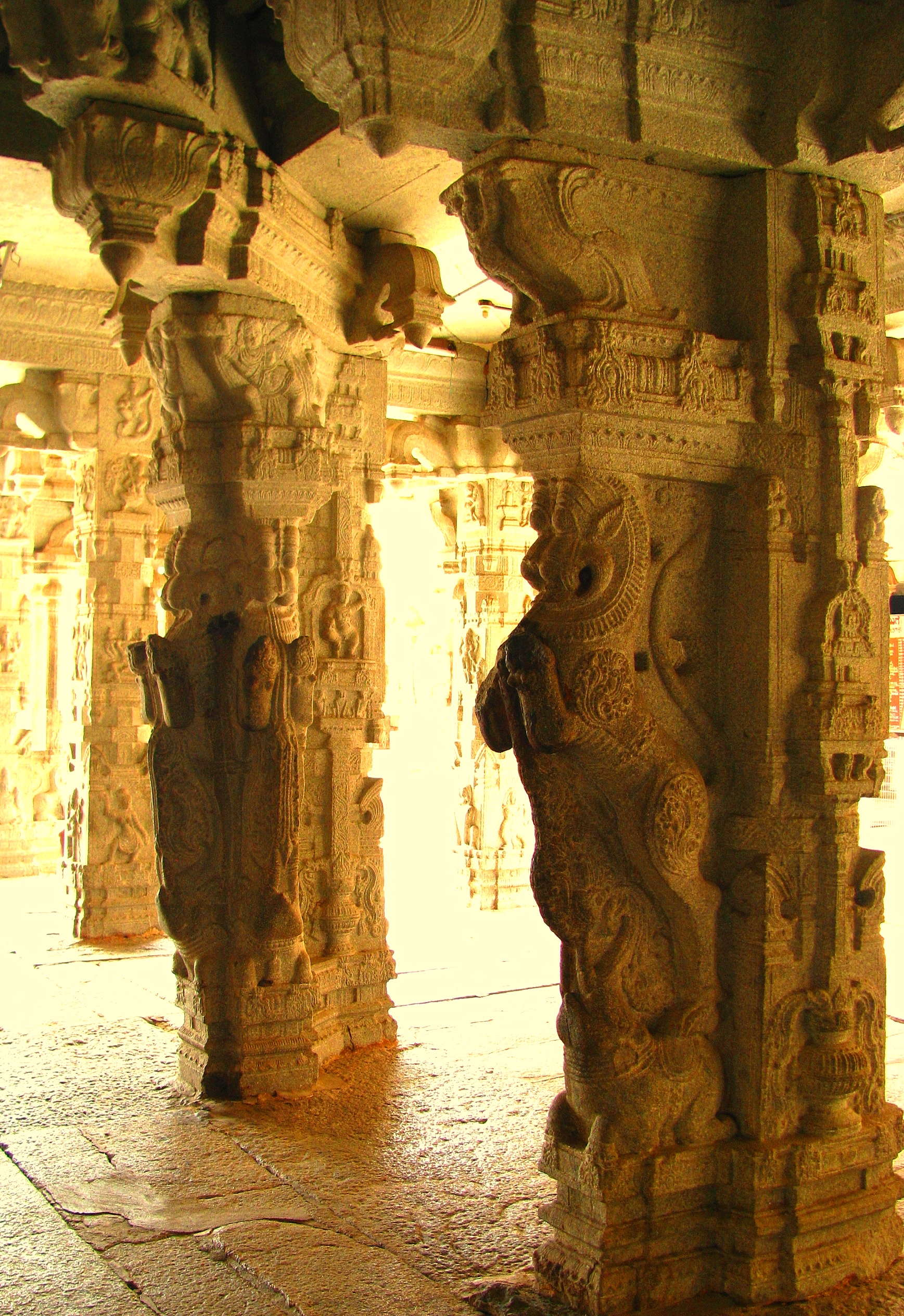 Vitthal Temple Pillars at Hampi, India